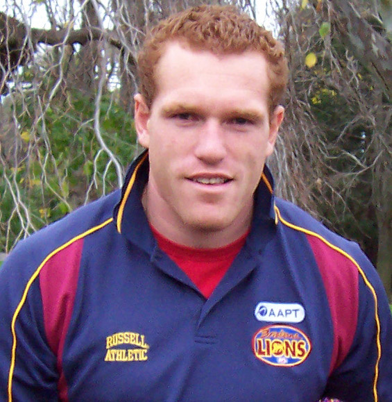 Australian AFL player Justin Leppitsch